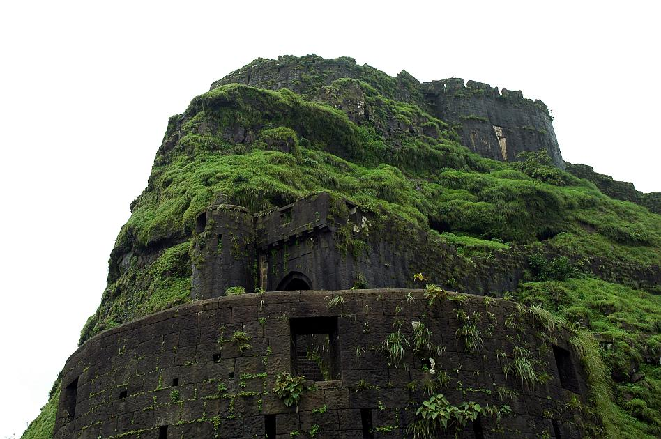 Lohagad fort protection wall